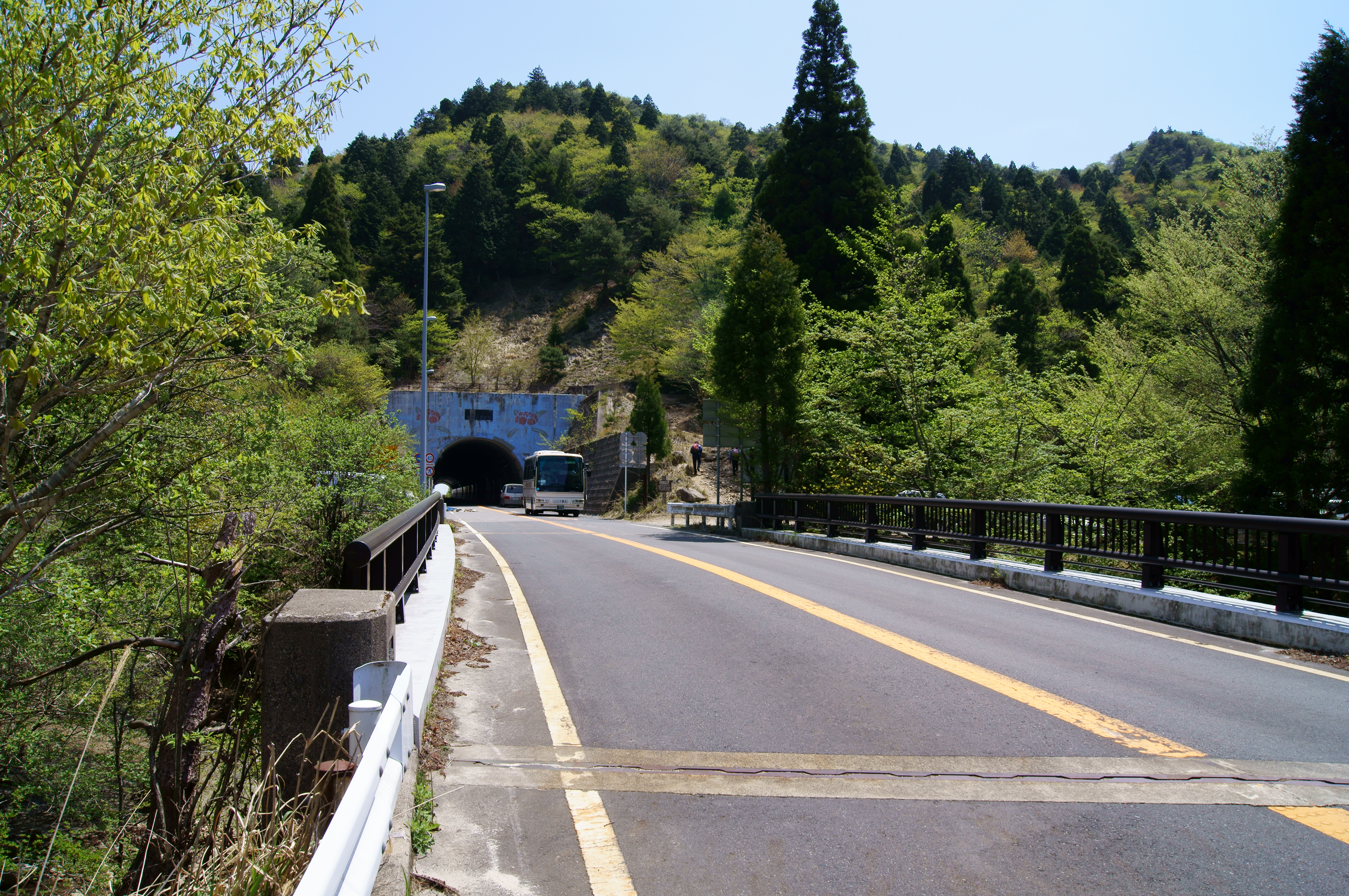 Buhei pass and Buhei tunnel between Shiga and Mie, Japan